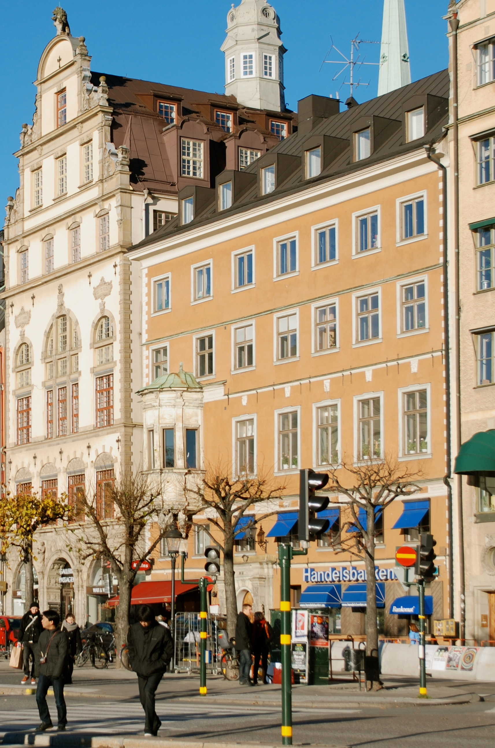 Kornhamnstorg Number 51. Also know as Von der Lindeska huset